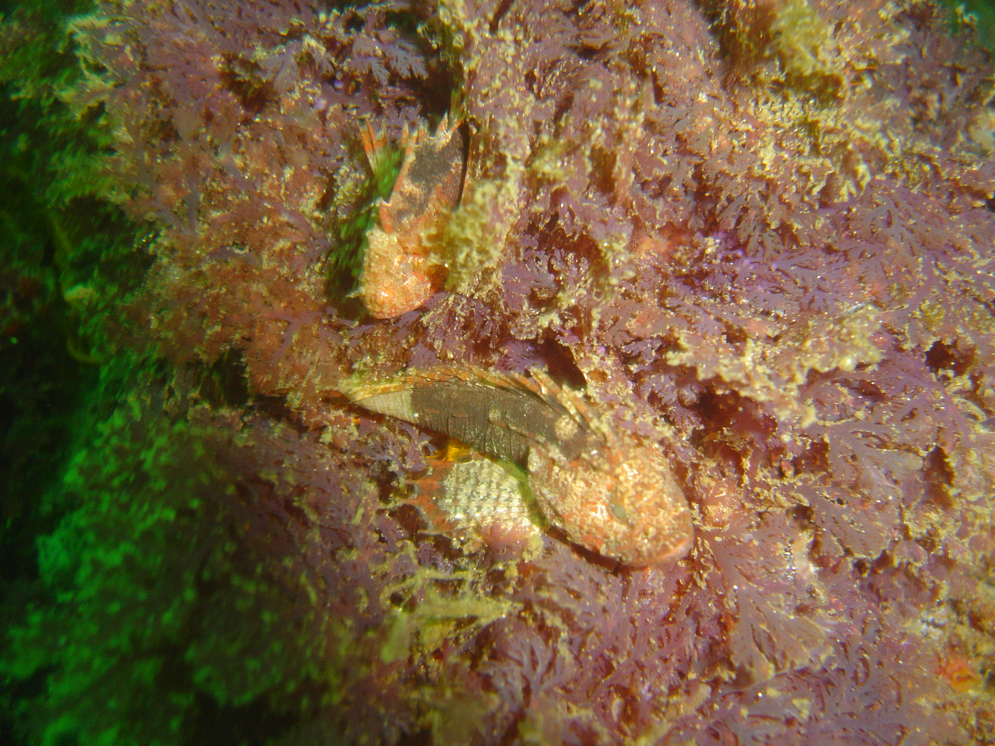 Simon's Town, Cape Peninsula.